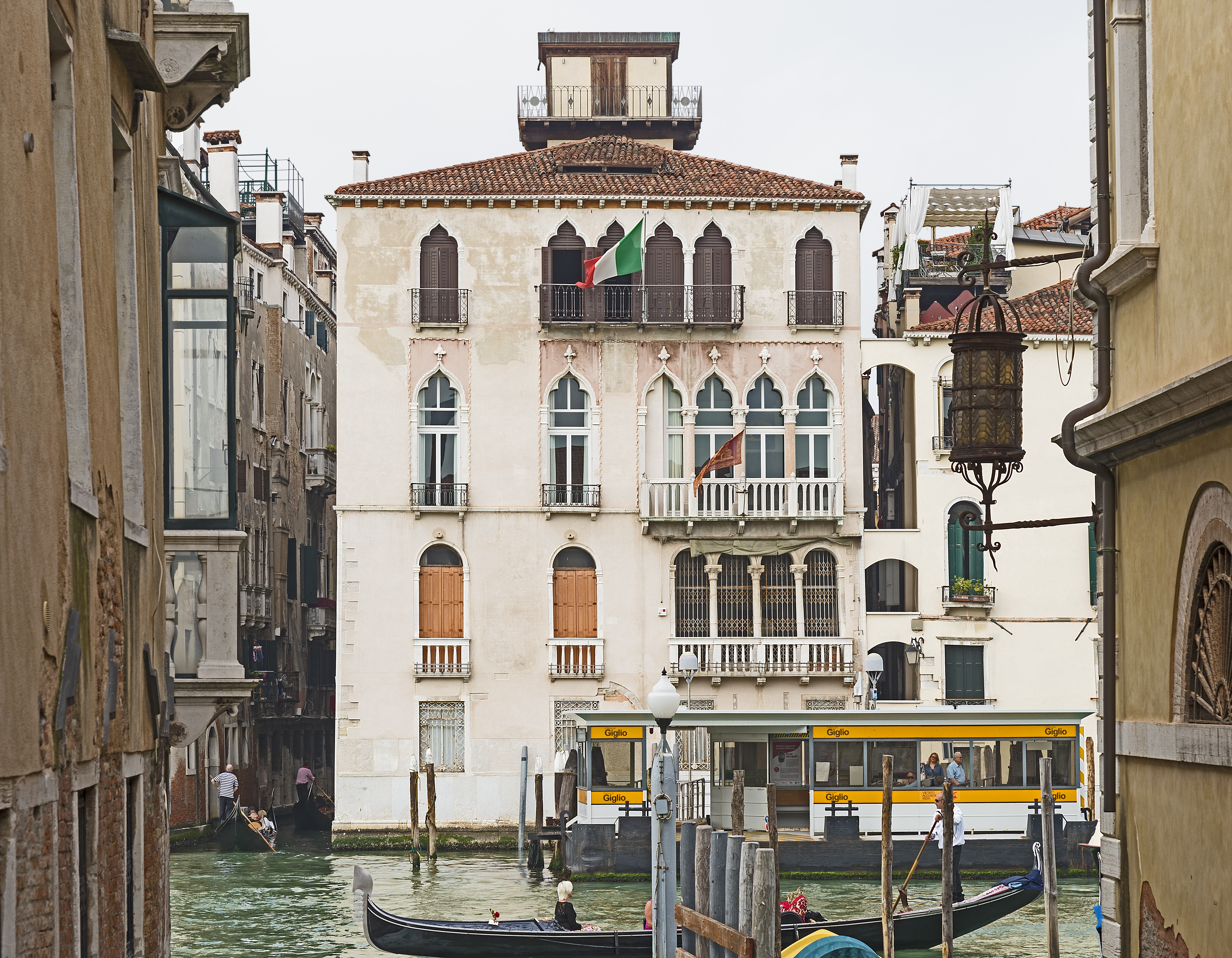 Palace Marin Contarini Venice. Facade on Grand Canal.